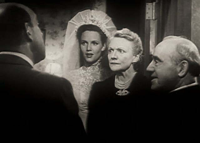 L. to R. : Nestor Paiva, Barbara Britton, Minna Gombell & Francis Pierlot in Mr. Reckless (1948) - cropped screenshot